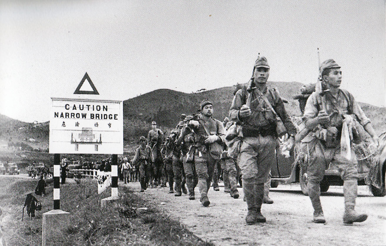 Japanese Army crossing the border between HK and mainland on 1941